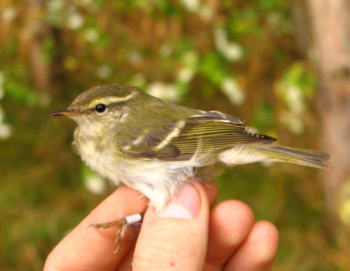 Yellow-browed Warbler (Phylloscopus inornatus)